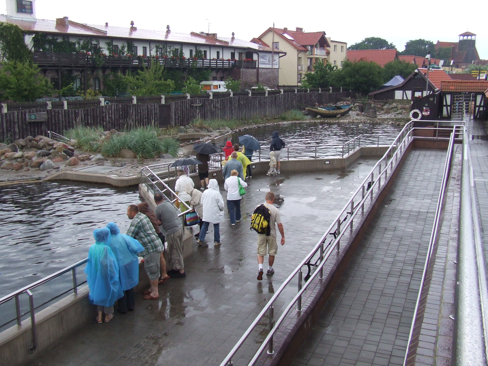 Hel, fokarium, Poland